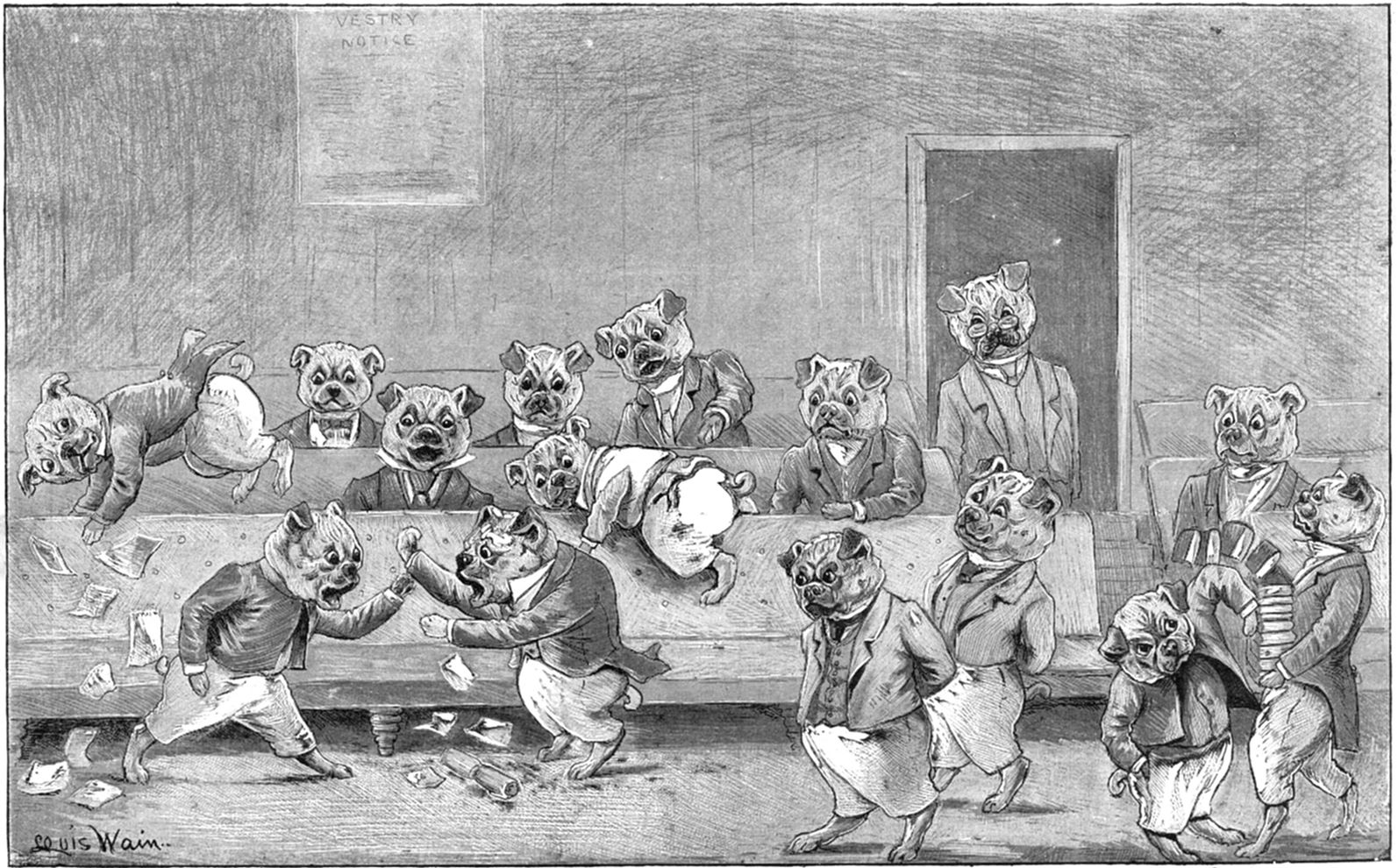 A print of the Louis Wain painting "A Vestry Meeting", made before 1892. Unusual as it depicts bulldogs, rather than the cats which are Louis Wain's usual fare.